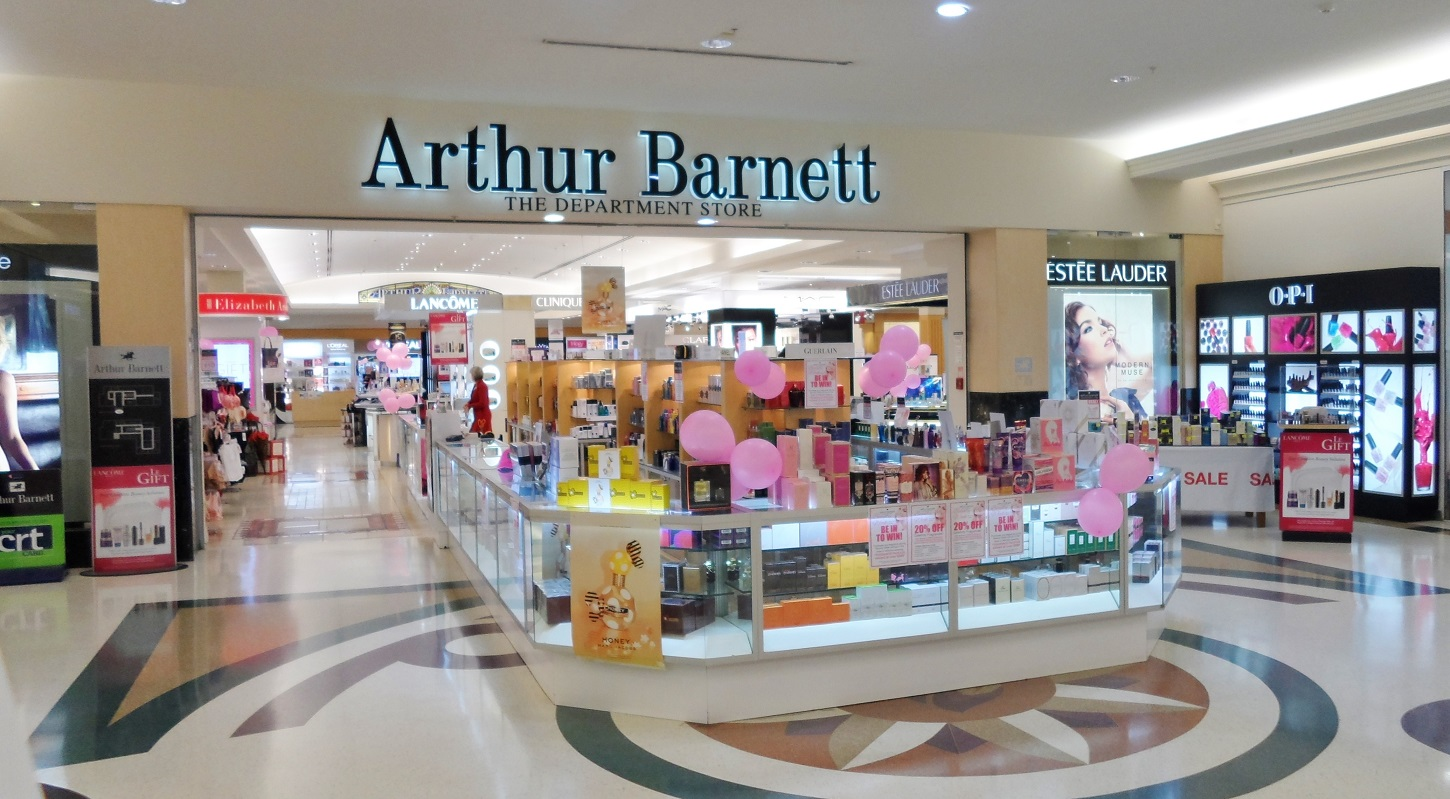 Main entrance to local department store Arthur Barnett on the Ground Level of the Meridian Mall in Dunedin, New Zealand in October 2013. Summary Main entrance to local department store Arthur Barnett on the Ground Level of the Meridian Mall in Dunedin, New Zealand in October 2013.